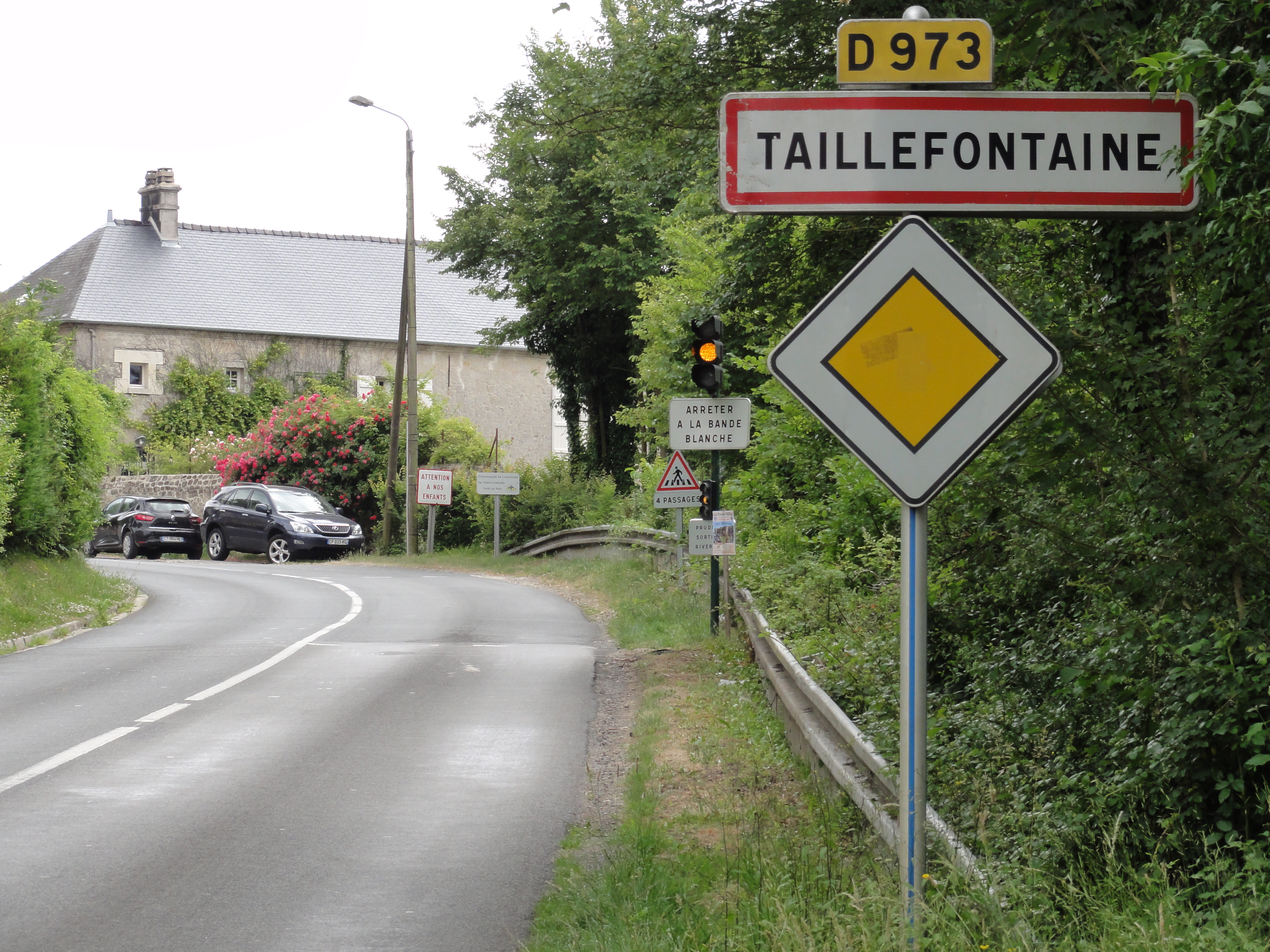 Taillefontaine (Aisne) city limit sign